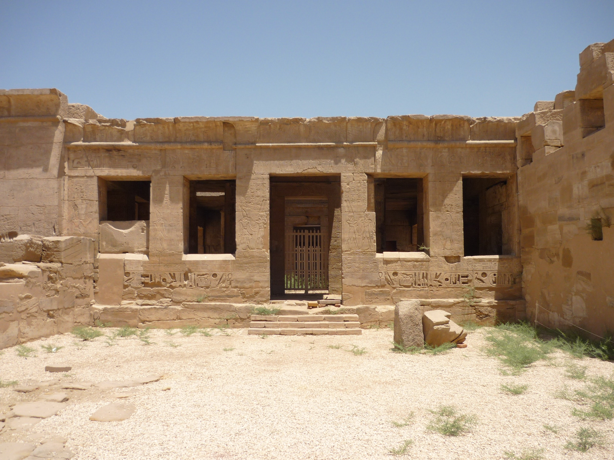 Temple of Amon, Medinet Habu, Theban Necropolis, Egypt